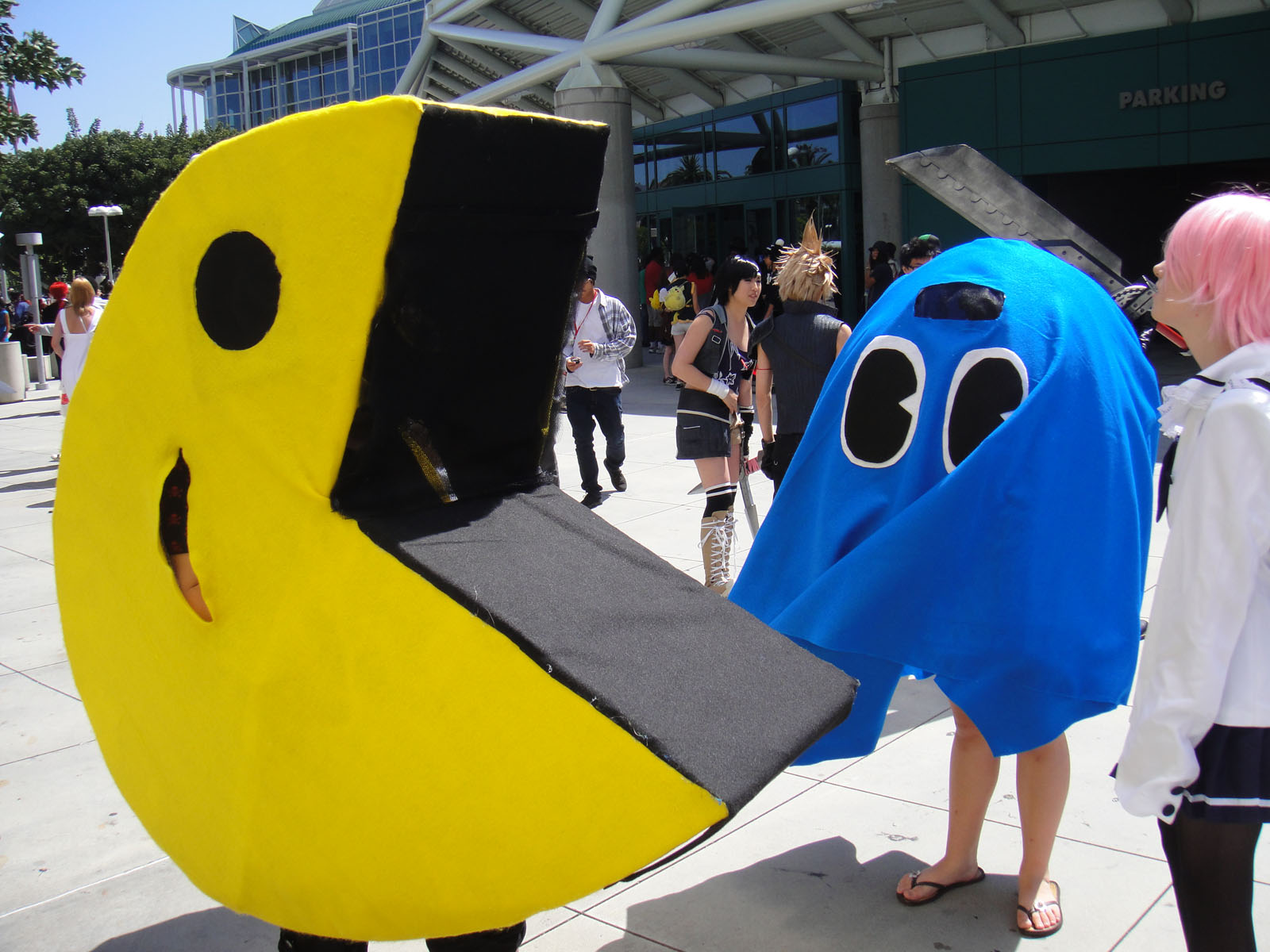 Anime Expo 2010 - LA - Pac-Man and ghost